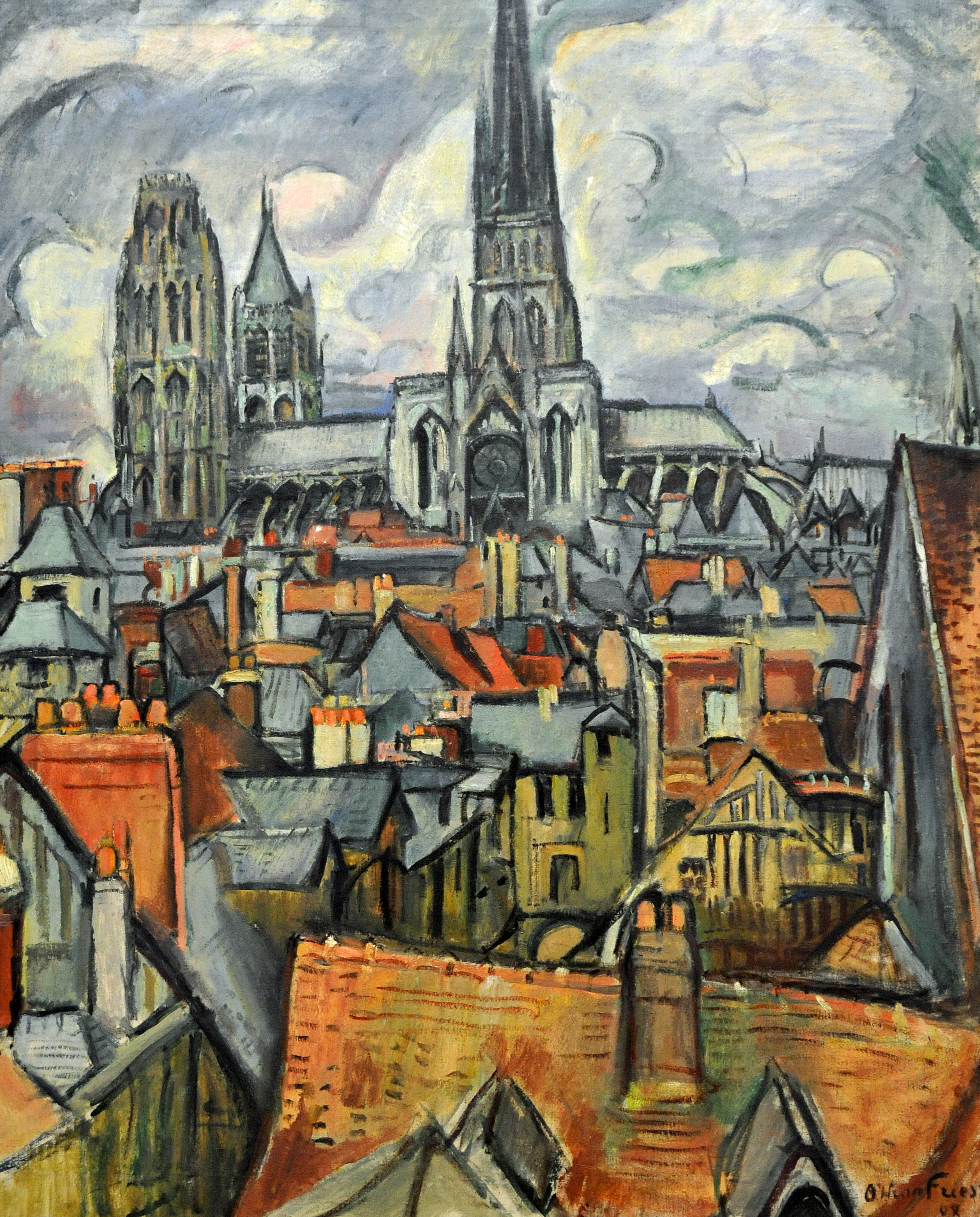 Othon Friesz, Roofs and Cathedral in Rouen ,1908, Saint Petersburg, Hermitage Museum.